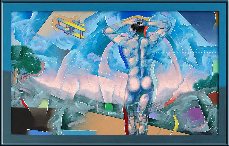 Icarus and a toy plane, a free version of the mythological theme.